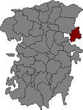 Location of Sant Jaume de Frontanyà in Berguedà